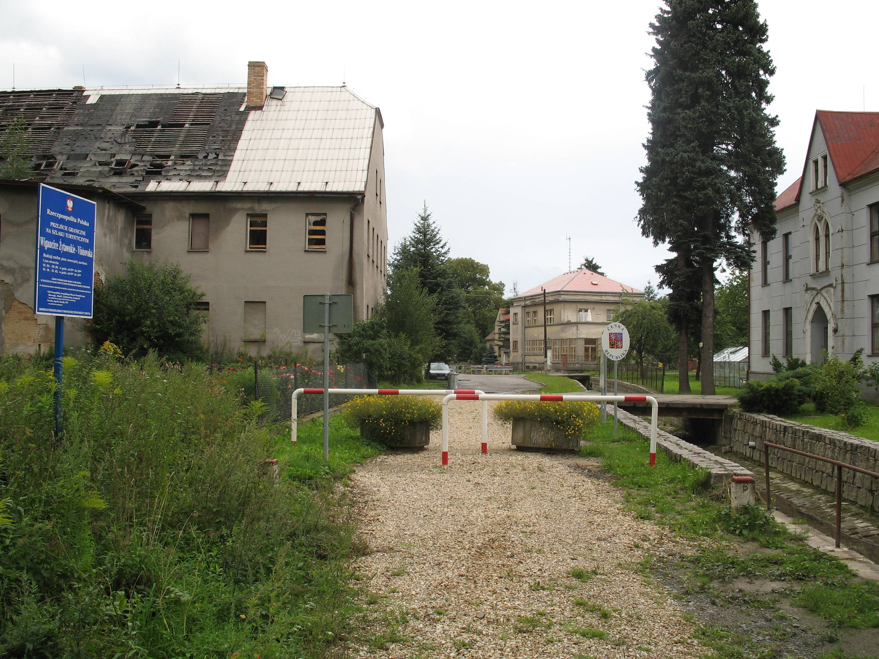 Polish - Czech border crossing in Višňová, Liberec District. Boundary stone 117/22 is at the right side of the road.